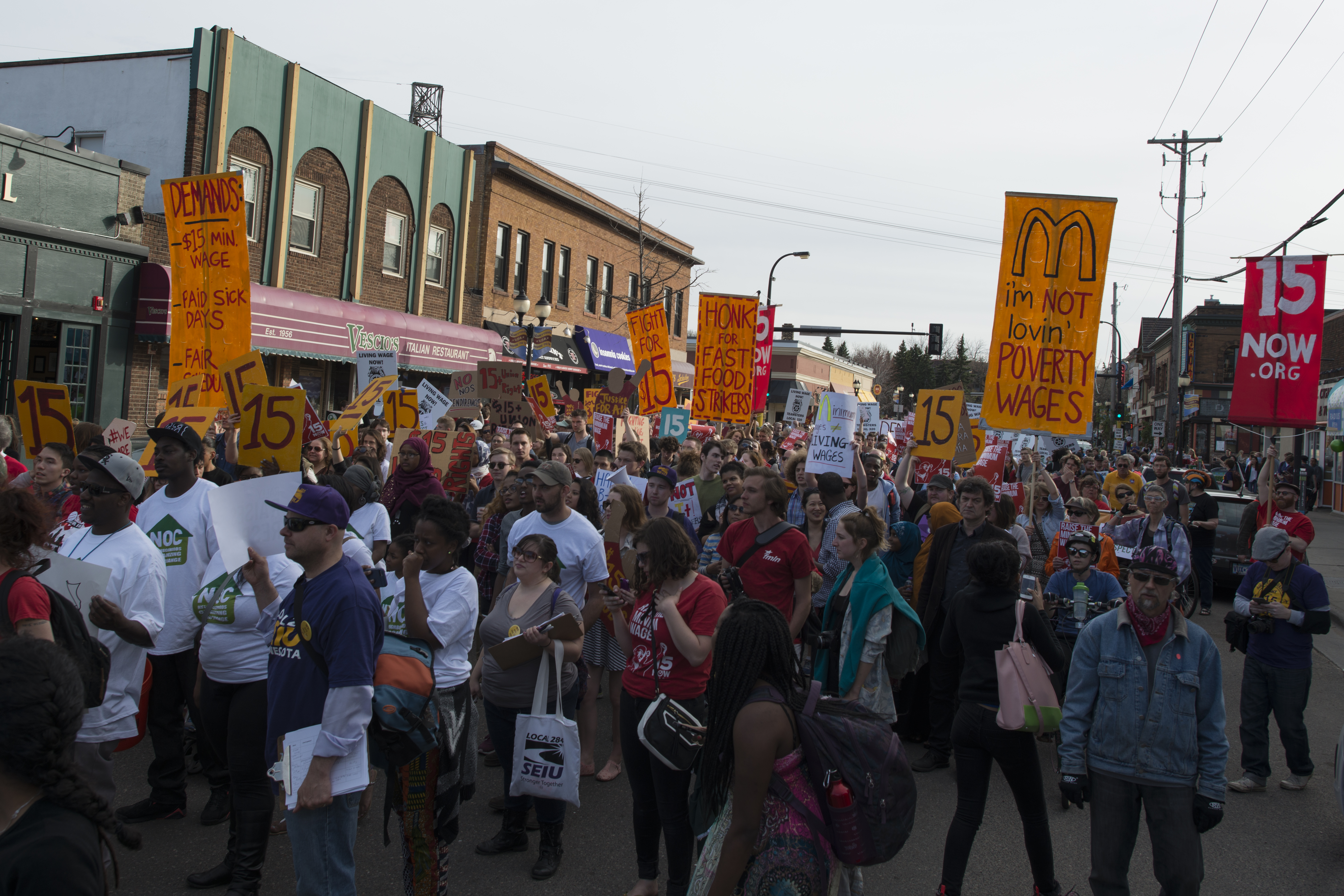 On April 15th fast food workers across the USA walked out on strike to hold protests and marches demanding a $15/hour minimum wage. In the Twin Cities, striking fast food workers were joined by university workers, students, janitors, retail workers and airport workers. They call for a $15/hour minimum wage, paid sick days, and fairer scheduling of work hours.